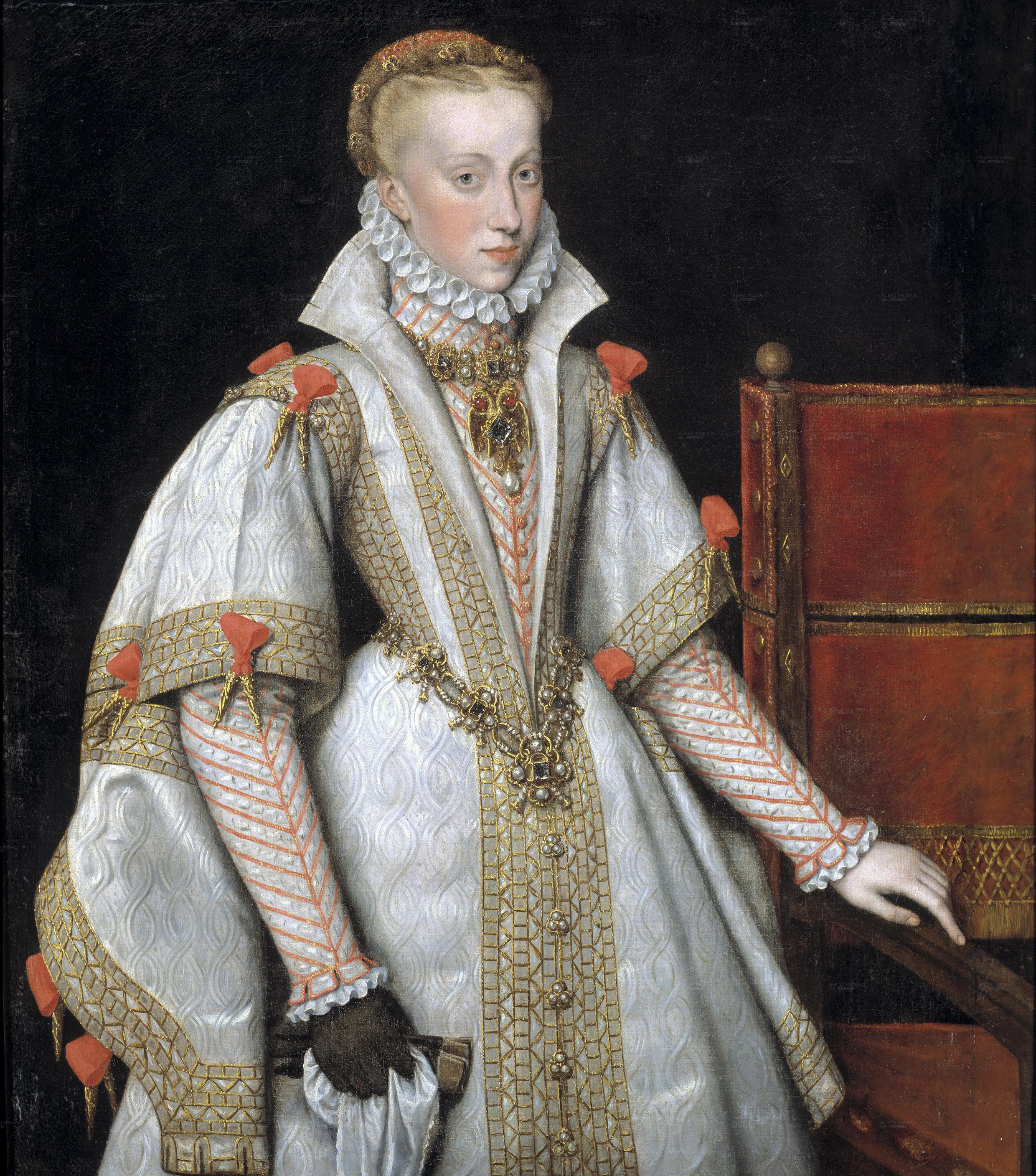 A court portrait of Queen Ana de Austria, who was the daughter of Emperor Maximiliano II (1527-1576), fourth wife of Felipe II (1556-1598) and mother of the future Felipe III